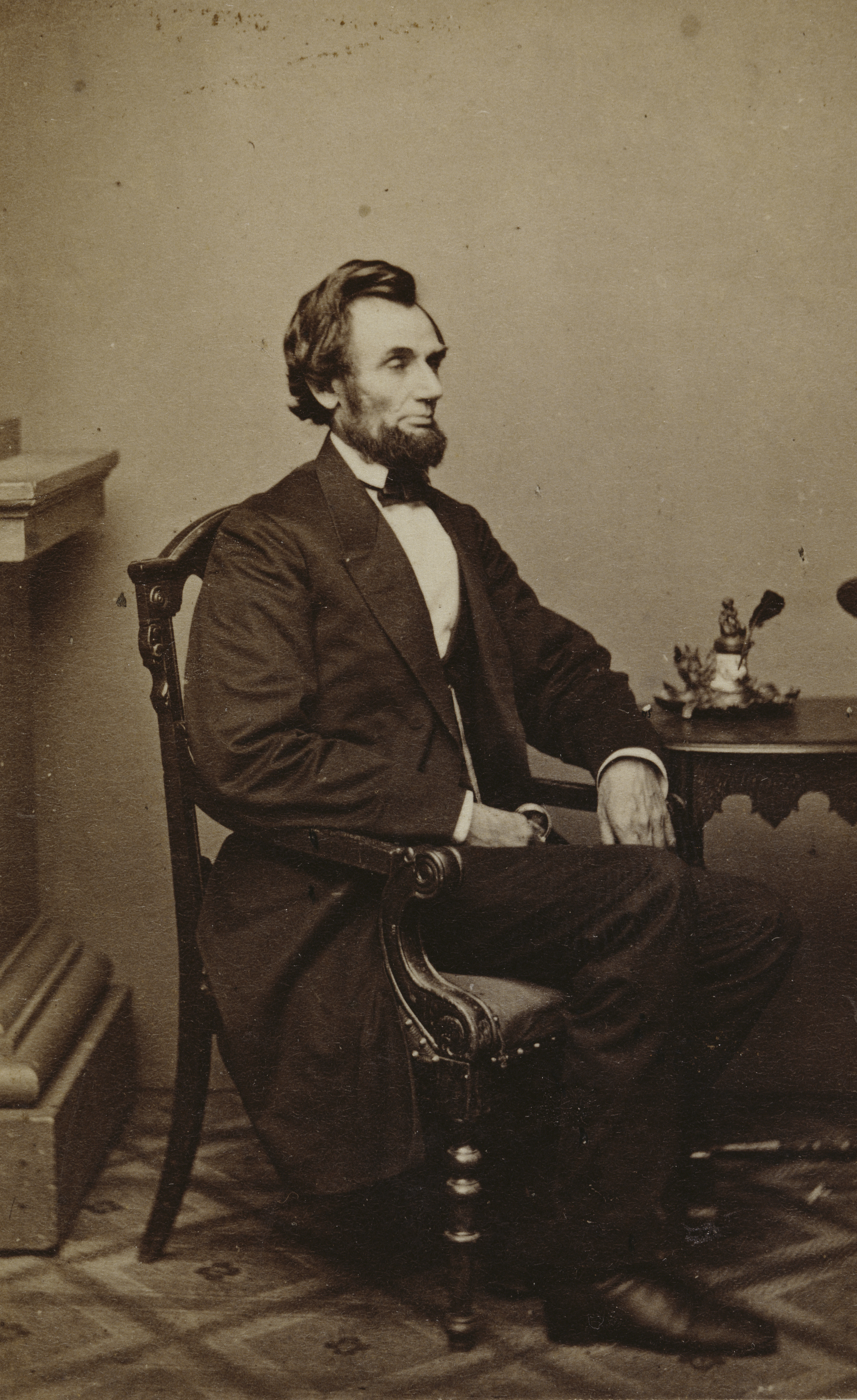 Albumen silver print printed from lost contemporary negative, possibly the original, of the view of a multiple-image sterographic pose made by Alexander Gardner at Mathew Brady's gallery, in Lincoln's first sitting in Washington DC.